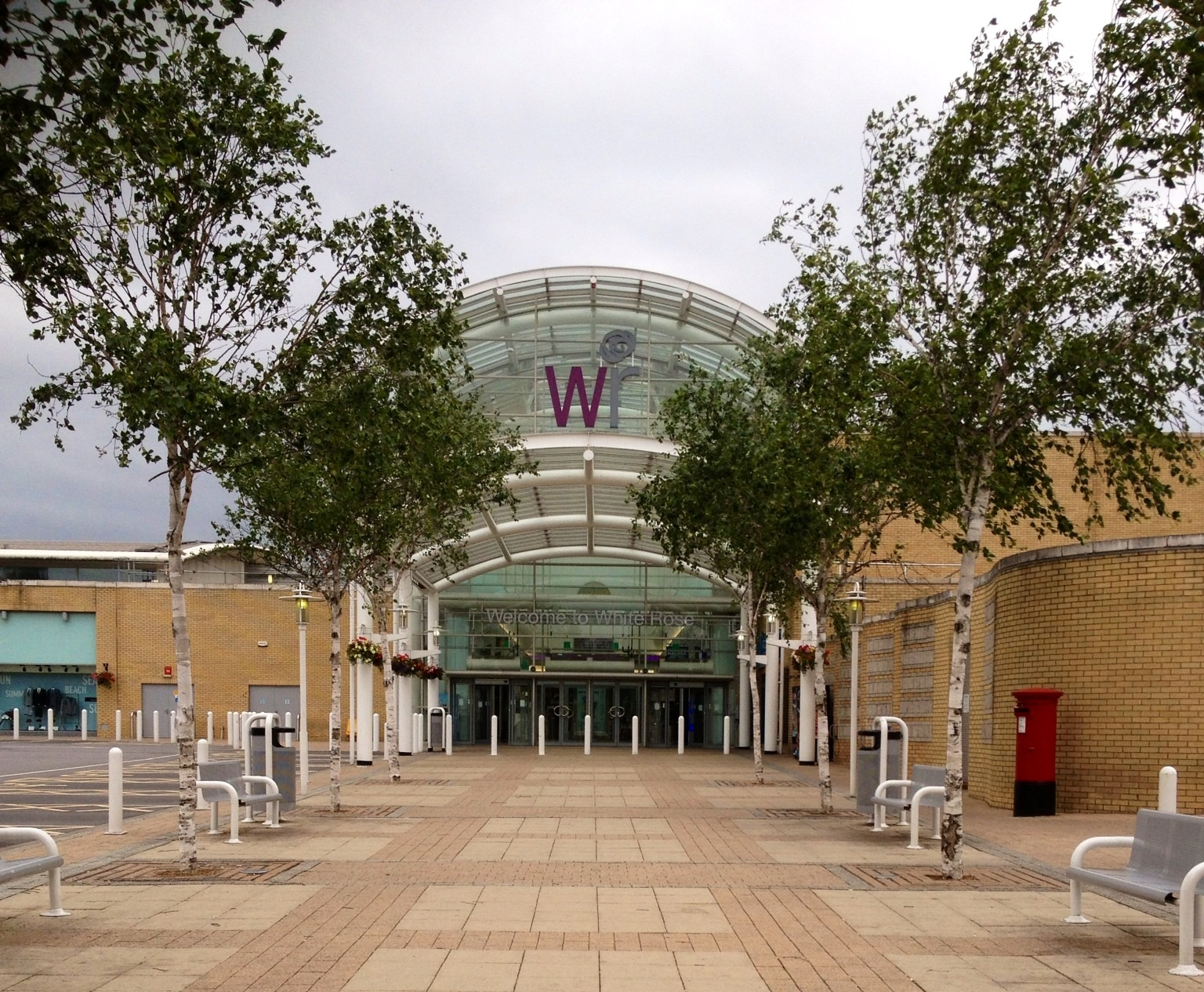 Image of one enterence of the White Rose Shopping Centre. Updated image.